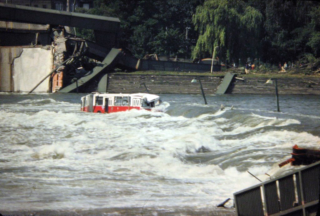 Collapse of the Reichsbrücke in Vienna 1976